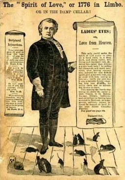 sketch of Frederick Coombs (1803-1874) aka George Washington II